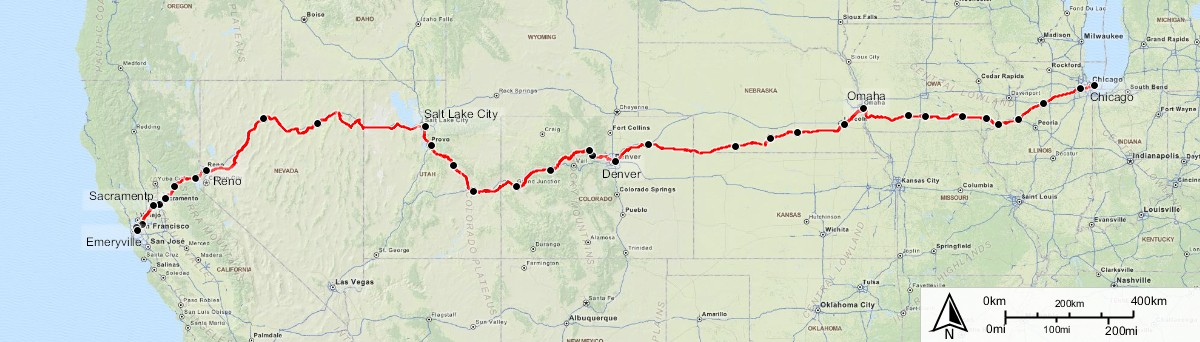 Amtrak California Zephyr Legend: ━━━ Rail line